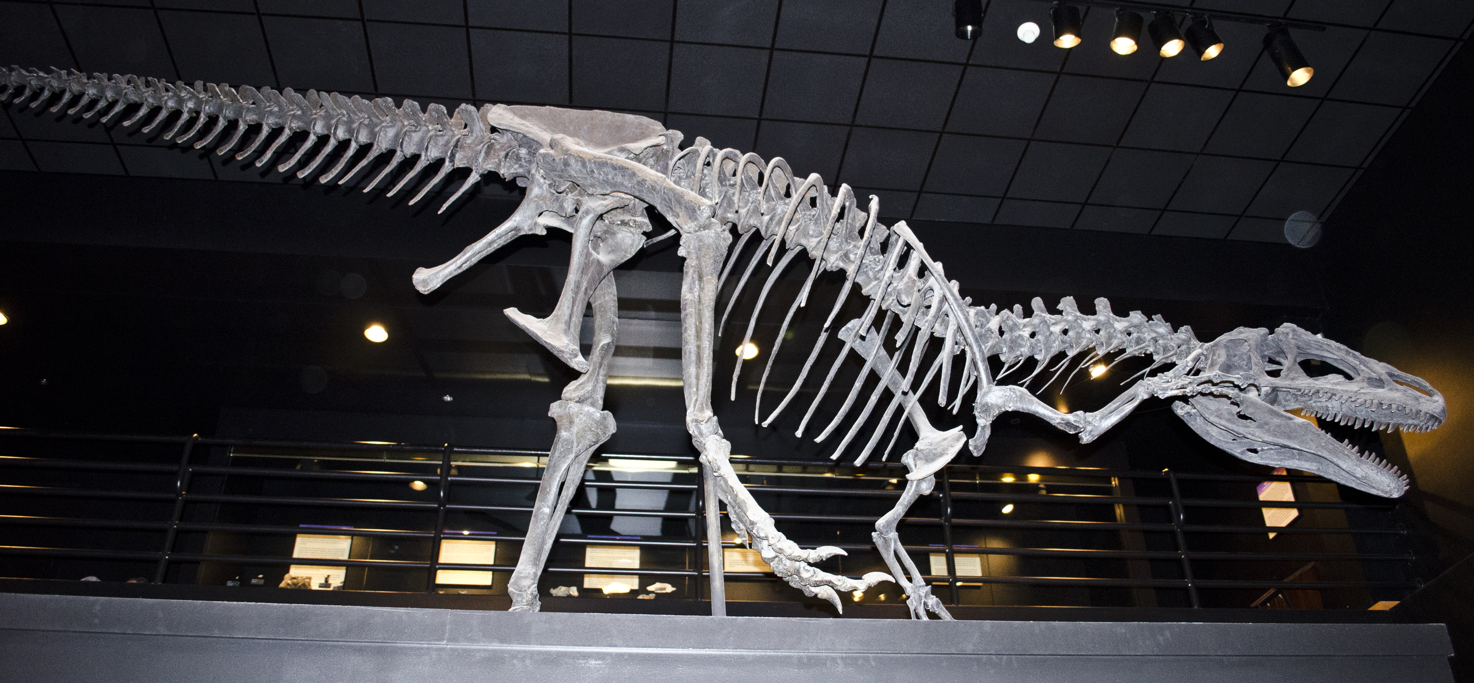 Nearly complete skeleton of an Allosaurus fragilis known as "Big Al" on display at the Museum of the Rockies in Bozeman, Montana. This specimen was collected at the Howe Quarry in Big Horn County, Wyoming. The name "Allosaurus" means "different lizard", and "fragilis" means "fragile". This refers to Allosaurus' relatively lightweight skull and slender teeth. It was first discovered in 1877 by paleontologist Othniel Charles Marsh, and used to be known as Antrodemus. Allosaurus lived 155 to 150 million years ago. It averaged 28 feet in length, but could reach 40 feet. It had a relatively long and muscular tail, which helped it balance and turn quickly, and the skull had a pair of horns above and in front of the eyes. One of the most important Allosaurus finds came in 1991 with the discovery of "Big Al" in Big Horn County, Wyoming. "Big Al" was 95 percent complete, and partially articulated (so scientists didn't have to guess how the bones fit together or moved). "Big Al" is about 26 feet long. It is a subadult and only about 87 percent fully grown. it suffered some pathologies (disease and injury) in its left foot, which made it compensate during hunting with its right foot. This caused injury to the right foot. In 1996, a second Allosaurus, "Big Al Two", was discovered in almost the same location. "Big Al Two" is slightly larger, and slightly more complete. "Big Al Two" is owned by the Sauriermuseum Aathal in Switzerland (whose team found and helped excavate it).